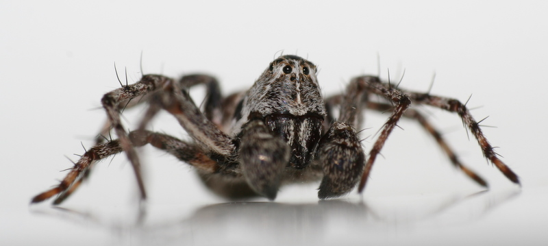 Young male of the lynx spider Oxyopes ramosus, a species seldom found around here. It will reach maturity in late spring.